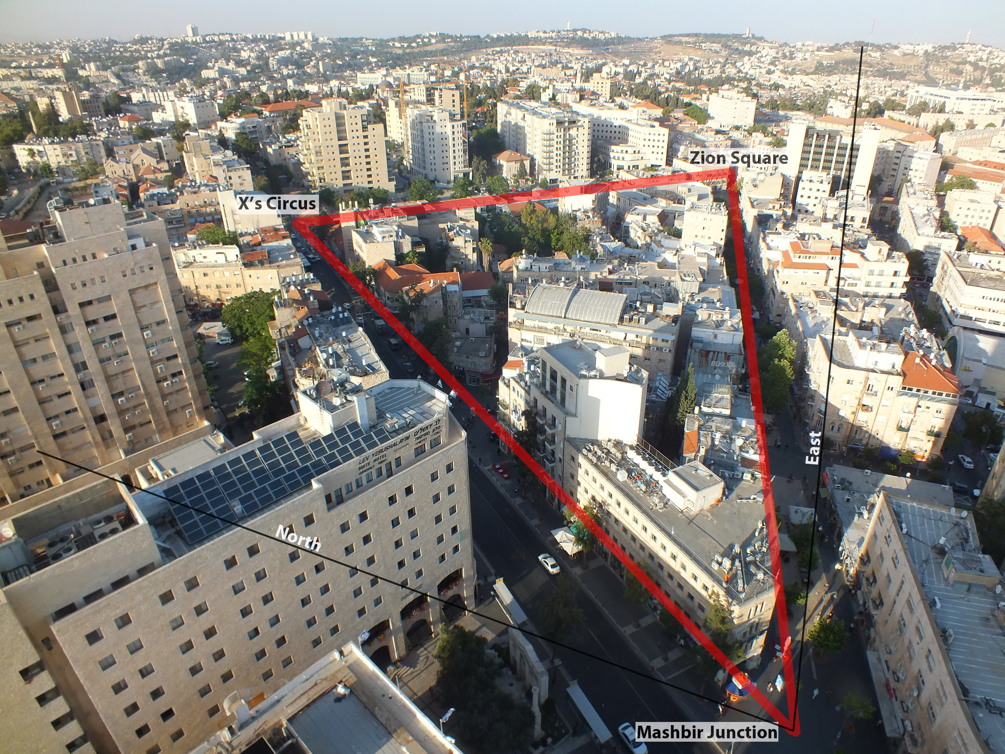 The area defined by the three vertices of Zion Square (Ben-Yehuda/Jaffa streets), Mashbir Junction (Ben-Yehuda/King George) and the X's Circus (King George/Jaffa) forms JLM's Meshulash – the Triangle.